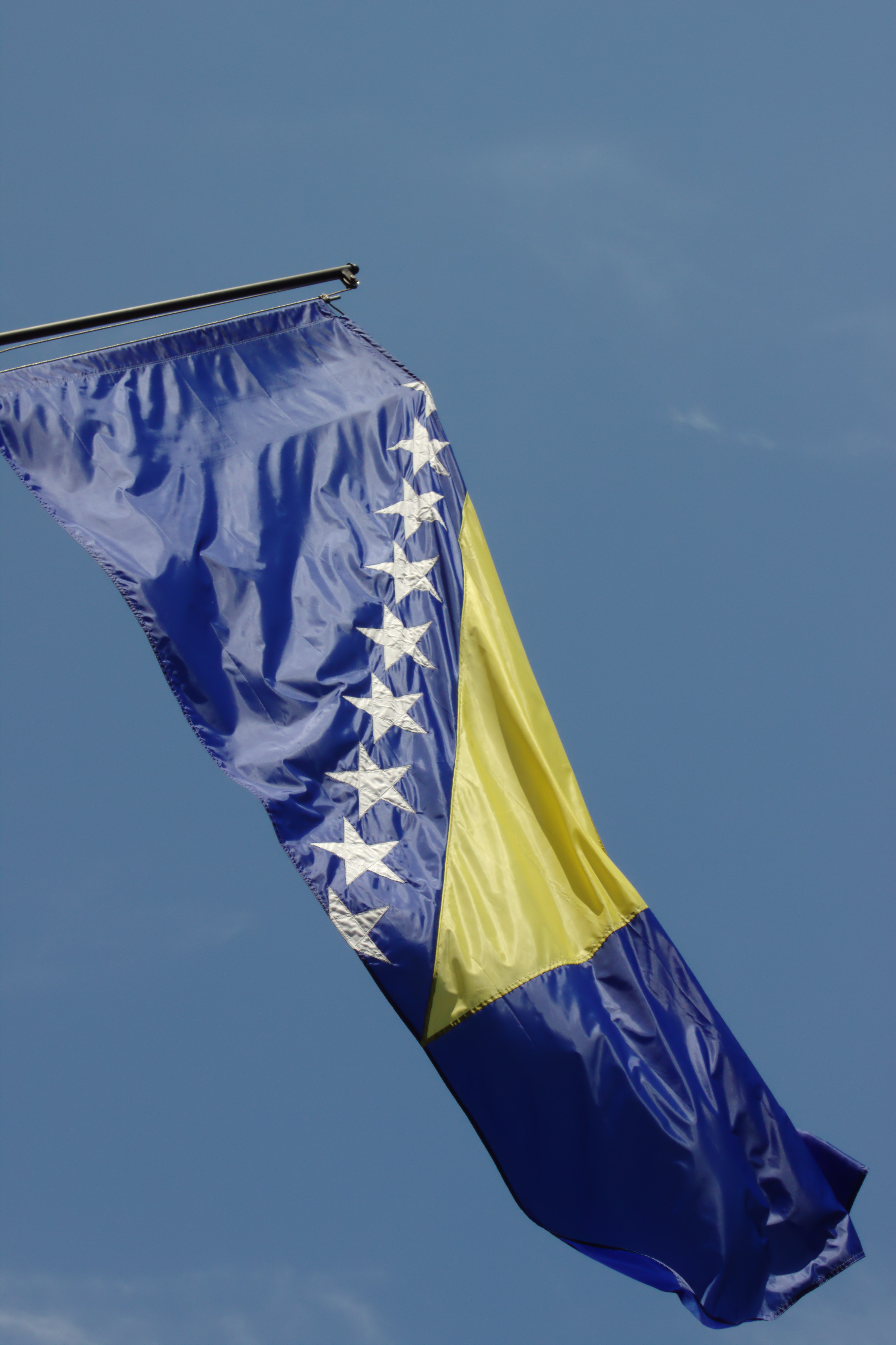 Flag of Bosnia and Herzegovina at its embassy building in Prague, Opletalova Street